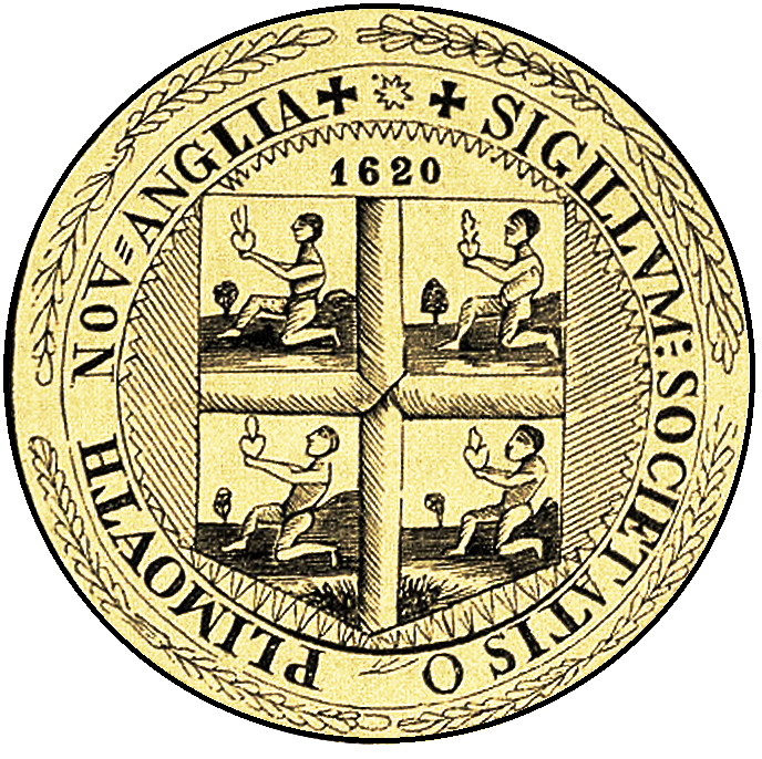 The seal of the Plymouth Colony, designed in 1629. It depicts four figures within a shield bearing St George's Cross, apparently in Native-American style clothing, each carrying the burning heart symbol of John Calvin. The seal was also used by the County of Plymouth until 1931, and is still used by the town of Plymouth today.